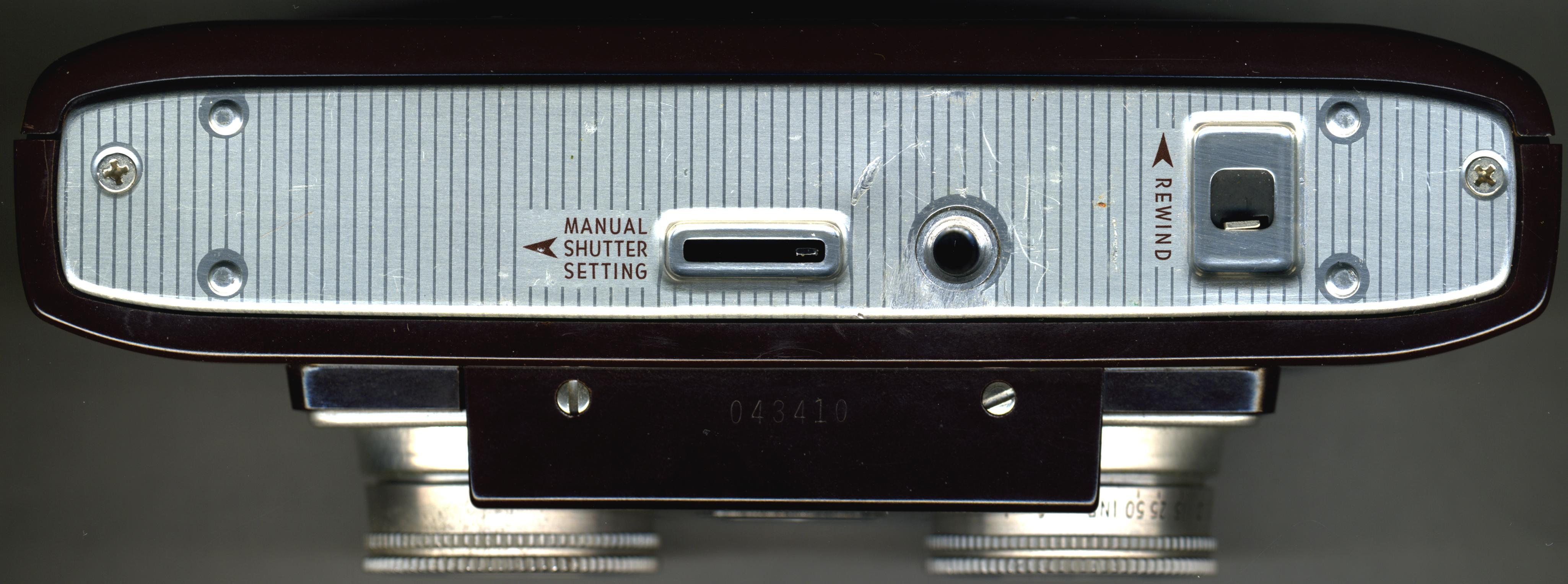 The Kodak Stereo camera, bottom view.